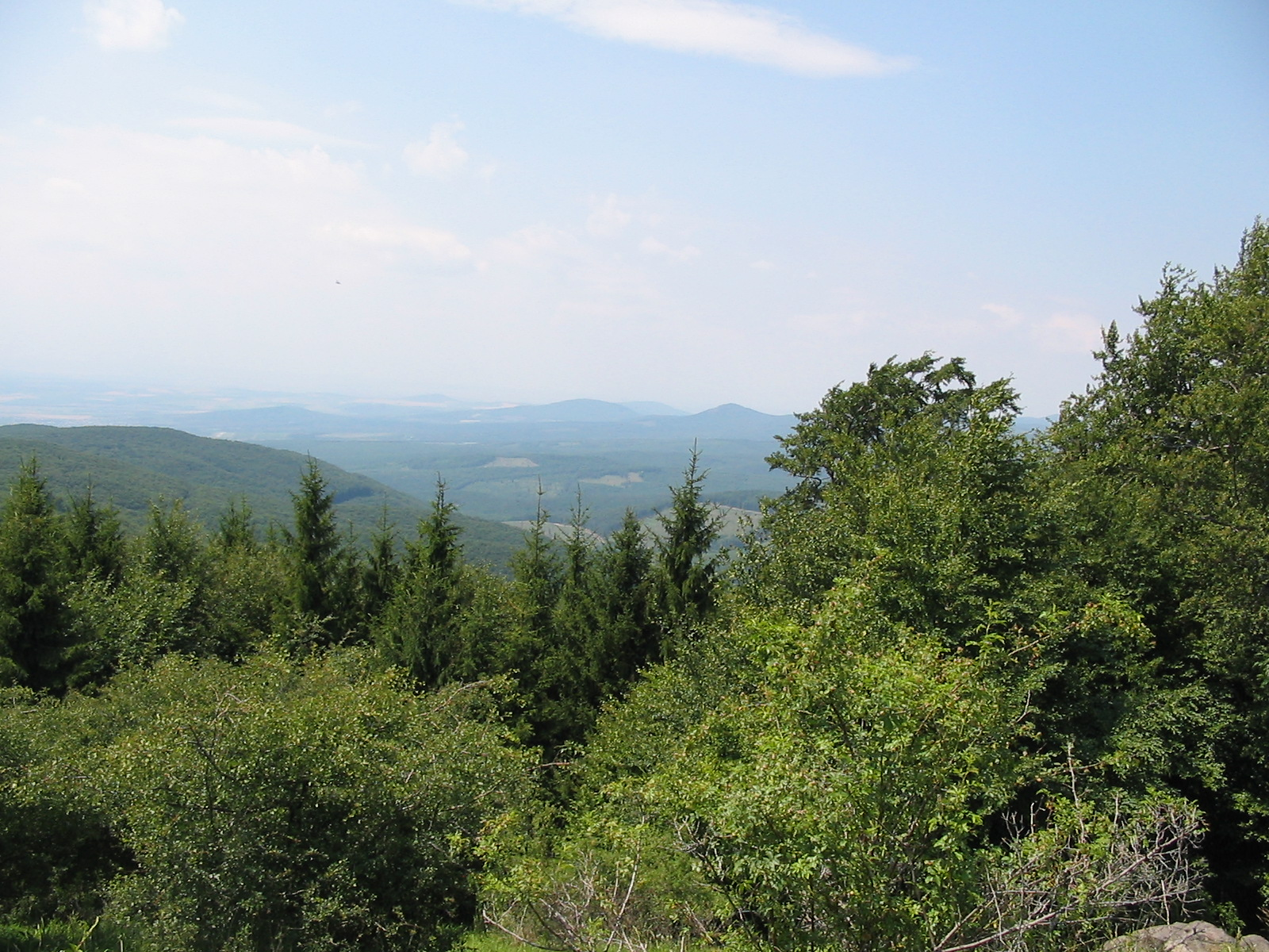 The view of Mátra Mountains from Mount Kékes.